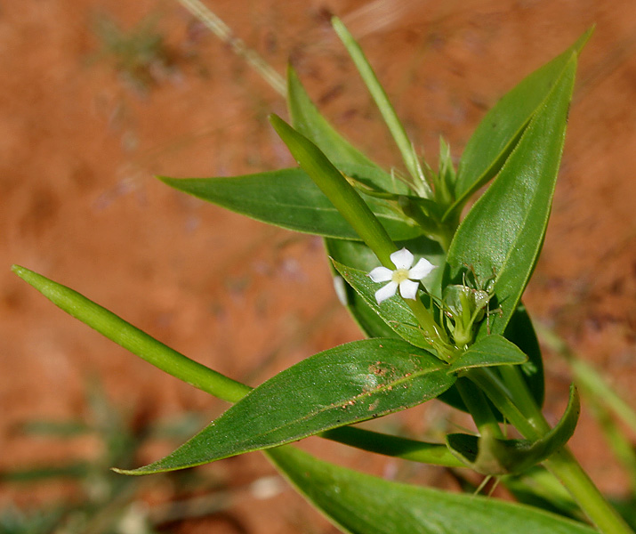 Catharanthus pusillus (syn. Lochnera pusilla, Vinca pusilla)- Tiny Periwinkle, Tiny Vinca • Marathi: संगखी Sangkhi, रान केल Ran-kel, तिलोनी Tiloni • Tamil: Paalaich, chetthai, milakaych chakkalatti • Malayalam: chupa-vela • Telugu: kanupoolaku, erri mirapa, gulvidi, sukbanda, gaddipoolu • Kannada: bili kaasi kanigalu- in Herbal Garden, in Rangareddy district of Andhra Pradesh, India.